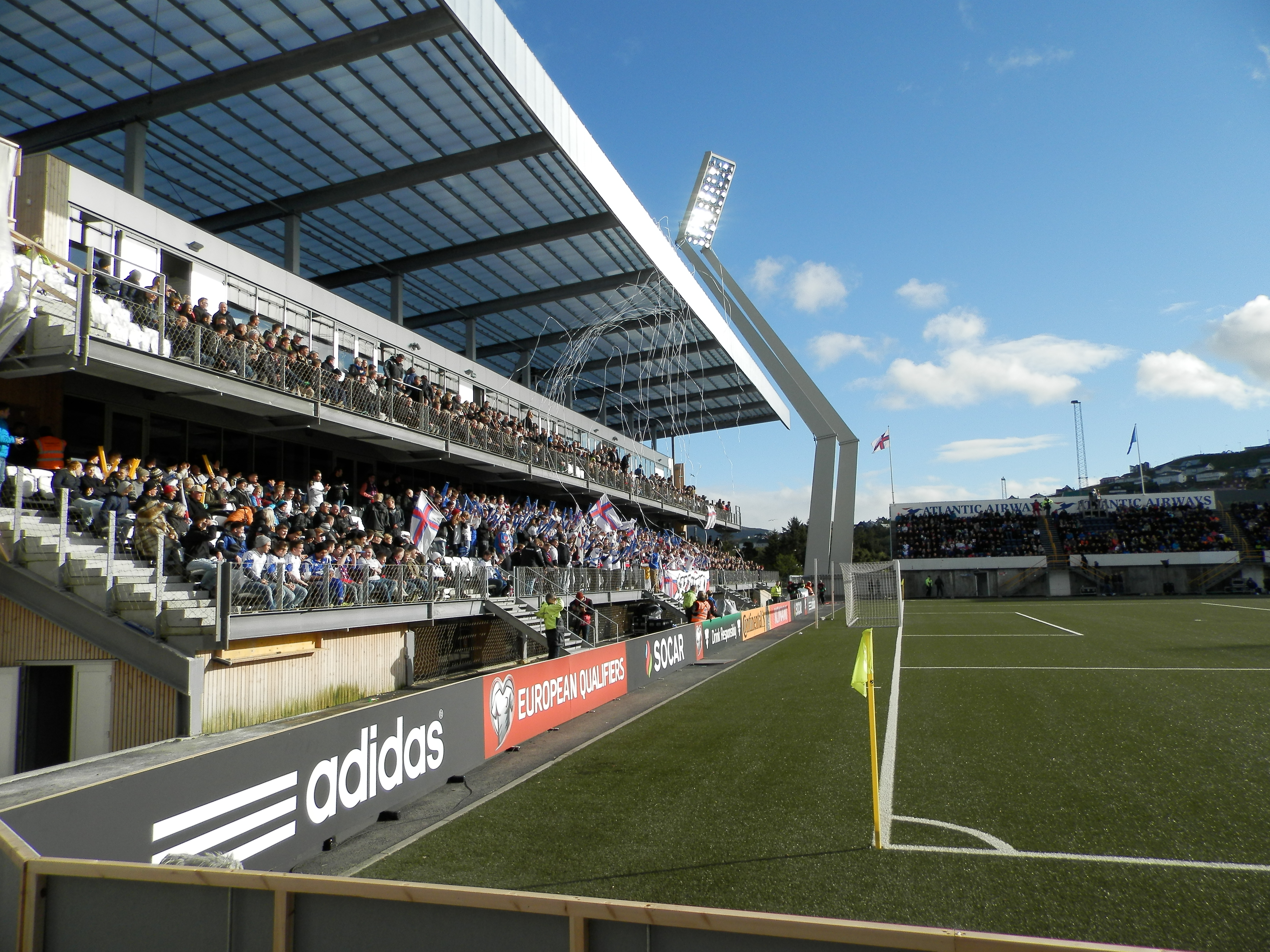 From the football match between the Faroe Islands vs Greece, played on Tórsvøllur Stadium in Tórshavn on 13 June 2015. Faroe Islands won the match 2-1.